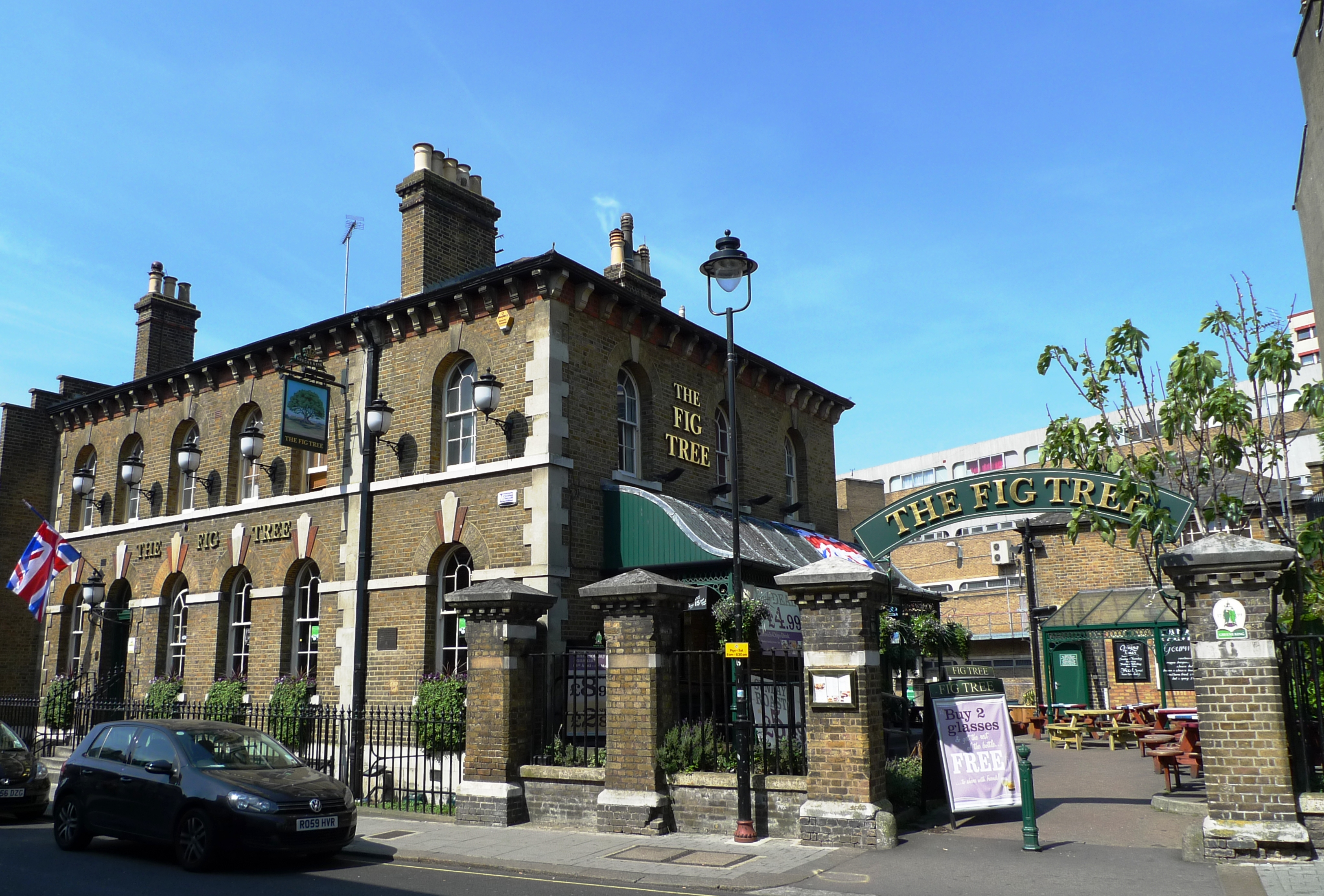 Large pub in central Uxbridge. Address: 49 Windsor Street. Owner: Greene King (website). Links: Pubs Galore Beer in the Evening